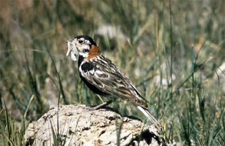 Chestnut-collared longspur on Bowdoin NWR Credit: USFWS